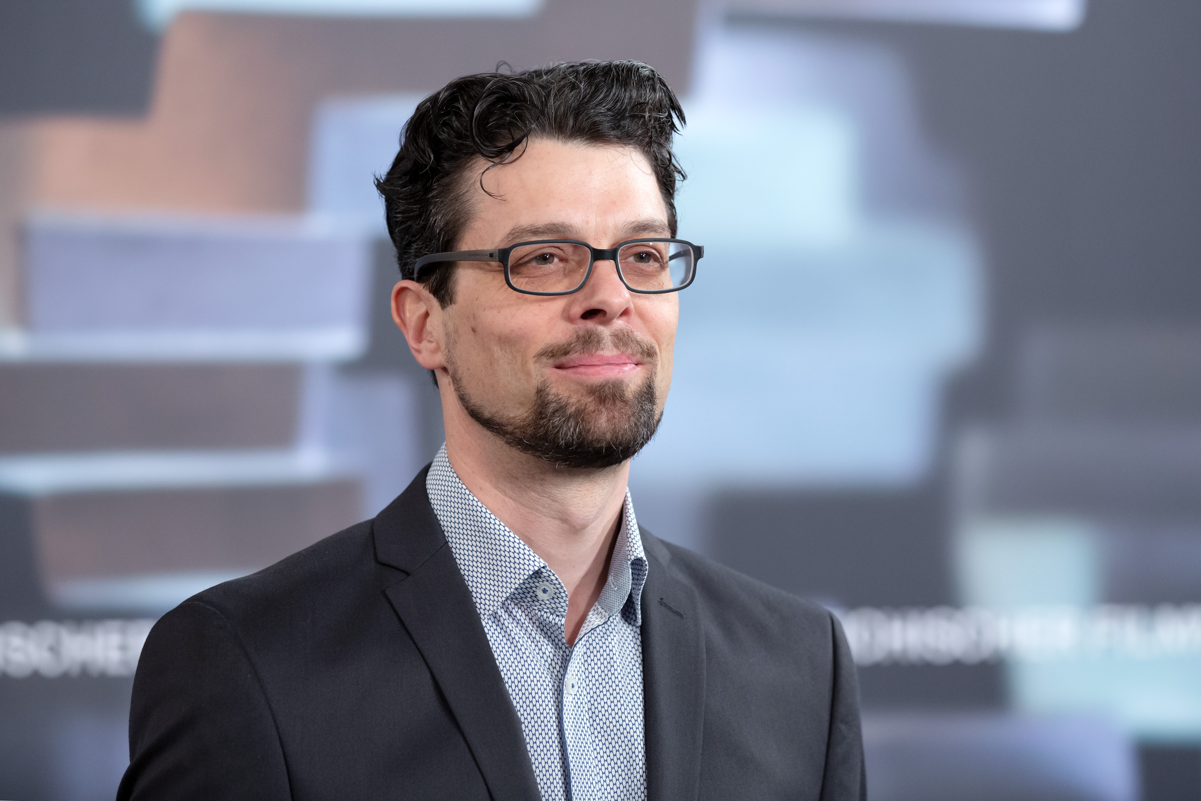 Georg Misch, photo call at the Austrian Film Awards 2019 (Rathaus, Vienna,Austria).